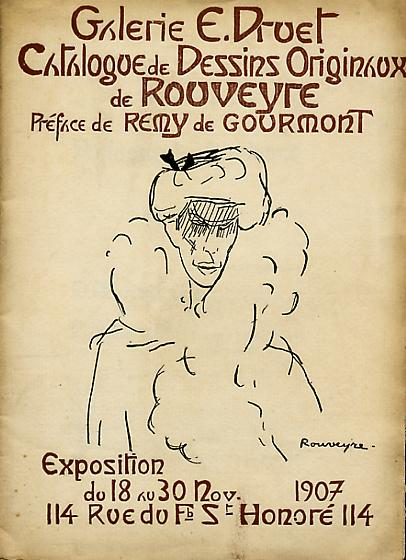 Catalog for the exposition of original drawings from Rouveyre at Eugène Druet´s gallery